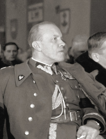 Stefan Mossor(1896-1957) - officer of the Polish Army